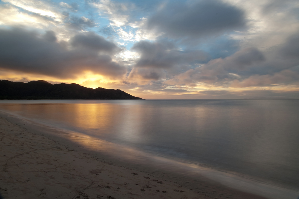 Sunset from Horse Shoe Bay